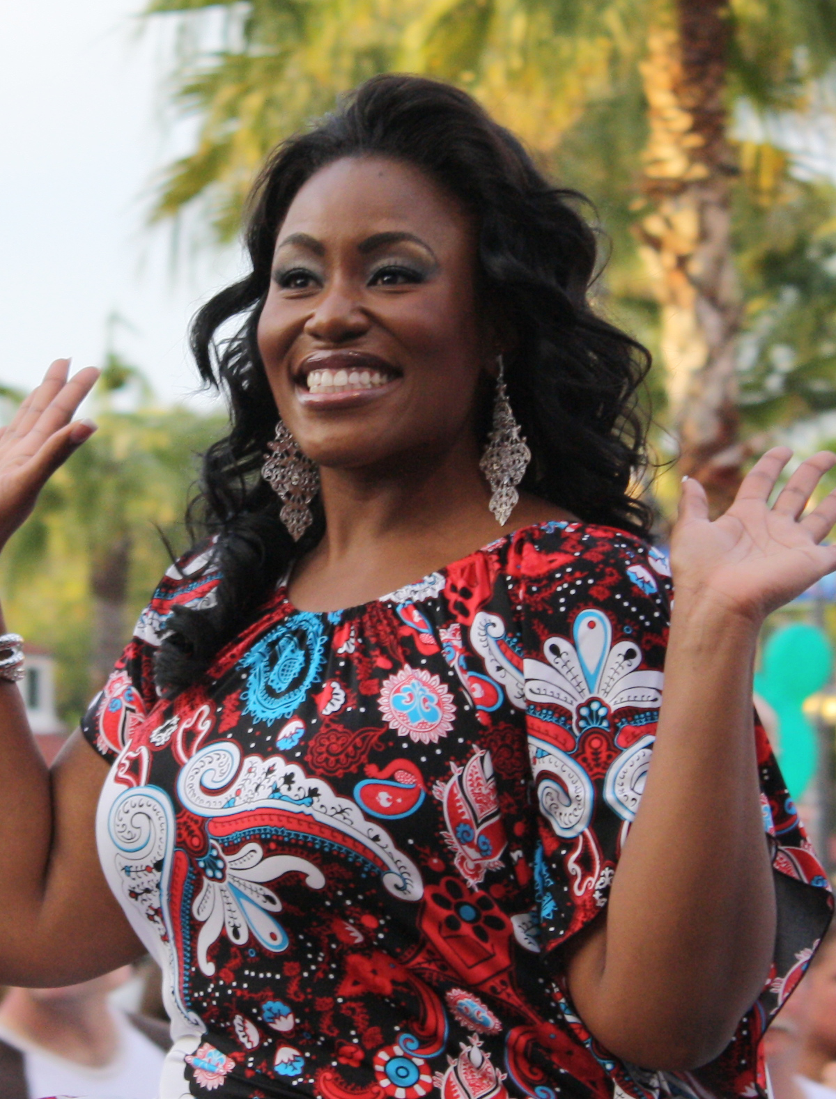 Mandisa, finalist on American Idol.